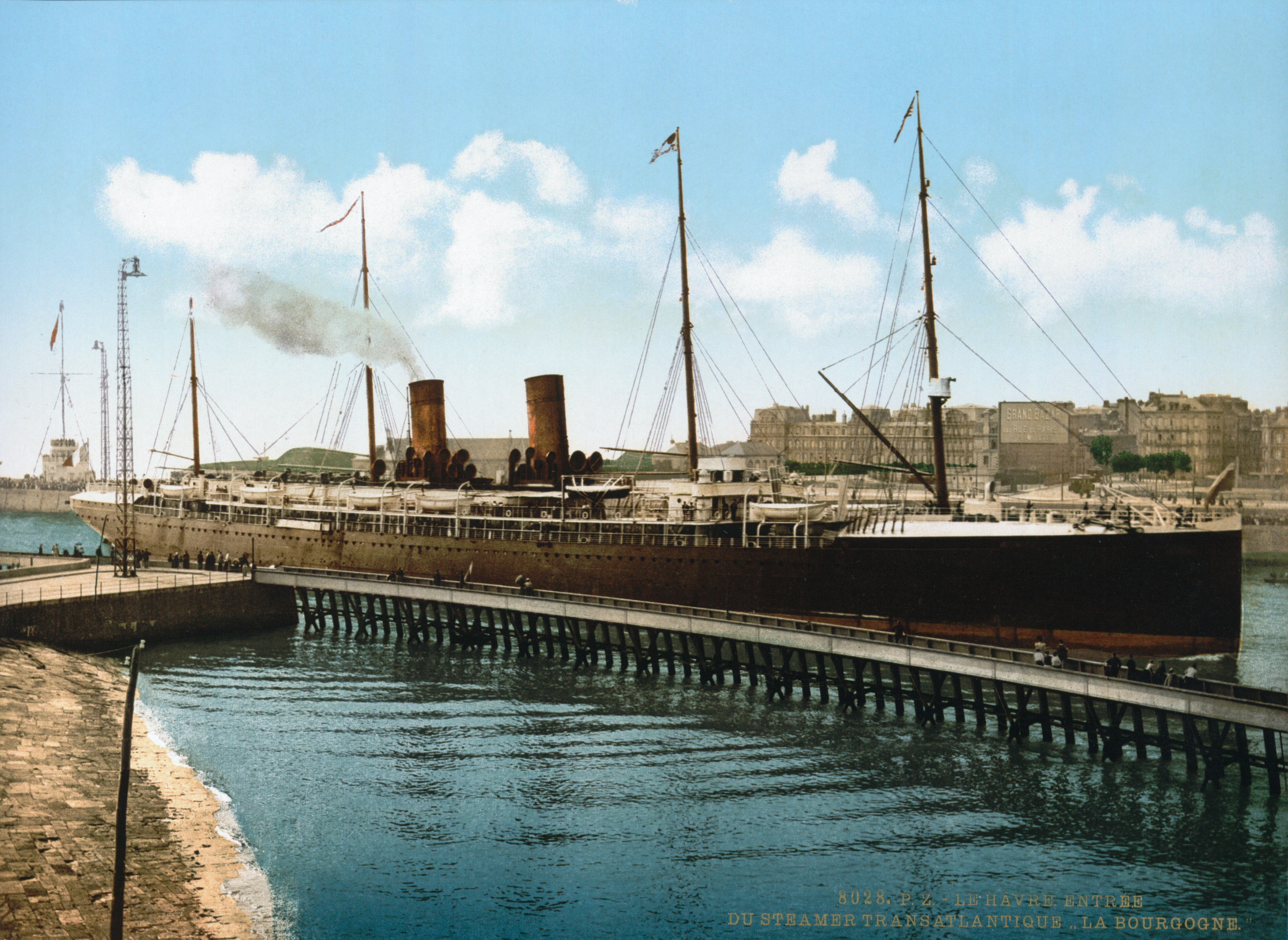 The Transatlantic steamer La Bourgogne, entering the port of Le Havre, France. Print no. "8028" also available on Flickr